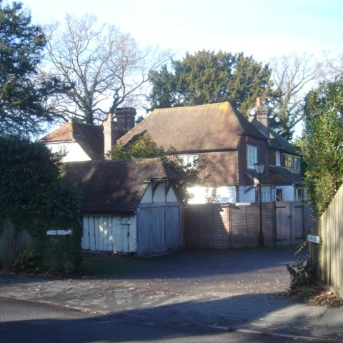 Turks Croft, Rusper Road, Ifield, Borough of Crawley, West Sussex, England: a late 15th-century open hall-house with five bays, two of which were added in the 16th century. A chimney was built in the 17th century. Partly tile-hung and with exposed timbers on part of the exterior. Listed at Grade II by English Heritage (IoE code 363393)